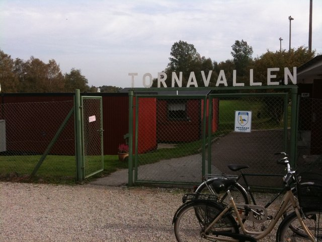 Tornavllen in Torna Hällestad